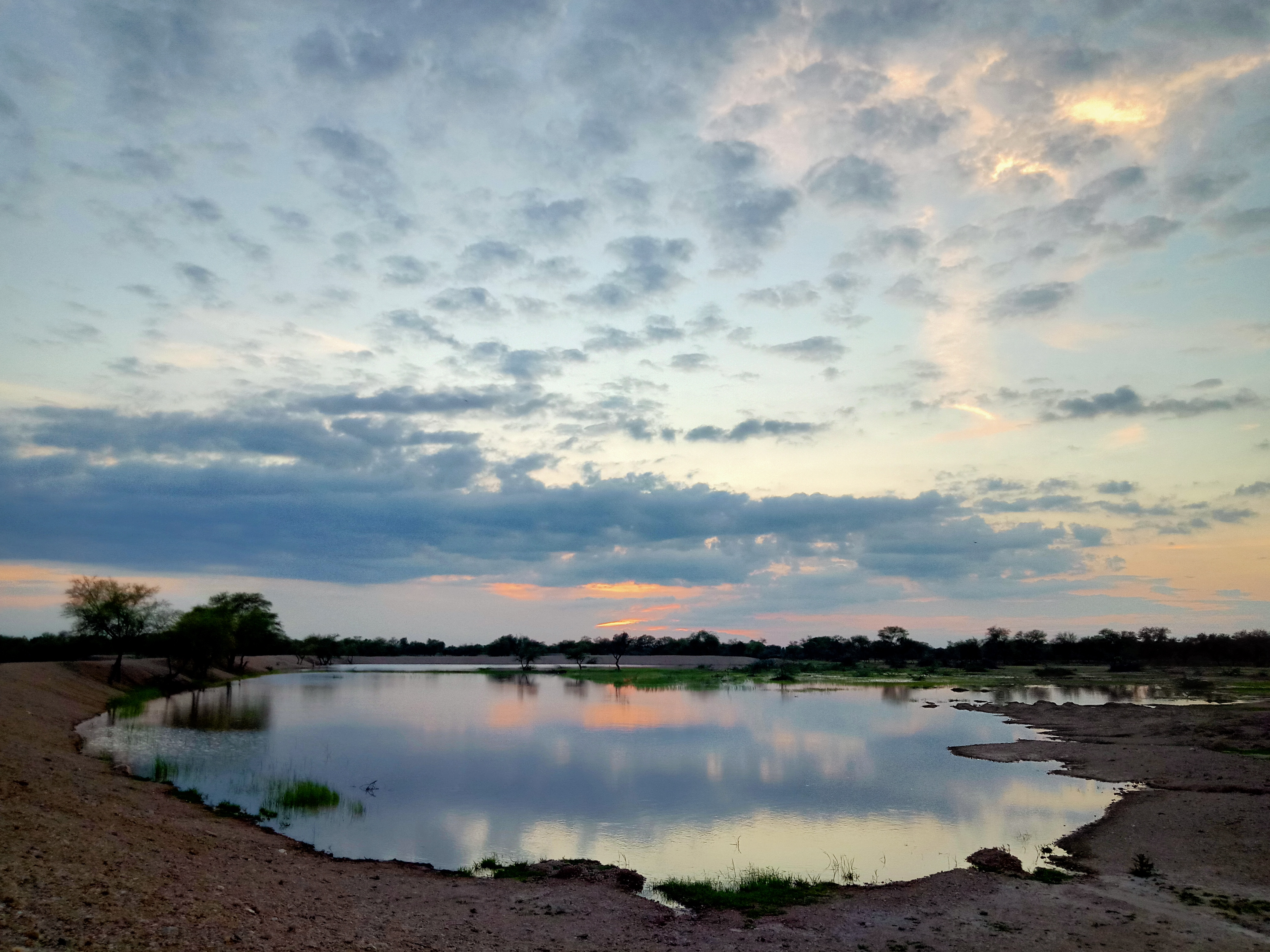 A Nadi is a small Johad, usually constructed on naturally occurring patches of thick clay where water cannot seep into ground, thus providing drinkable water to village cattle.